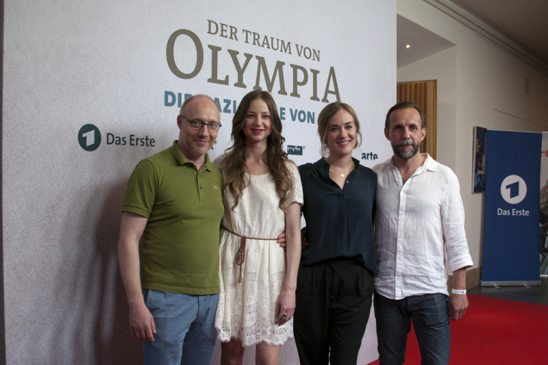 Simon Schwarz, Sandra von Ruffin, Annina Hellenthal, Gotthard Lange - Photocall of DAS ERSTE Movie: “Der Traum von Olympia - Die Nazi-Spiele von 1936”